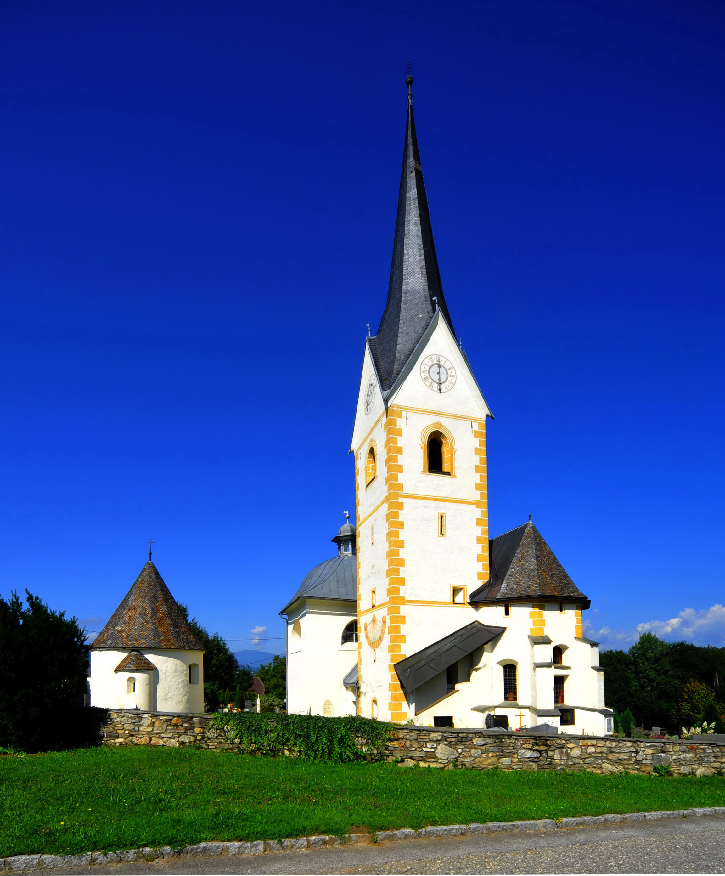 Parish church Holy Egyd at Tigring in the municipality Moosburg, district Klagenfurt-Land, Carinthia, Austria